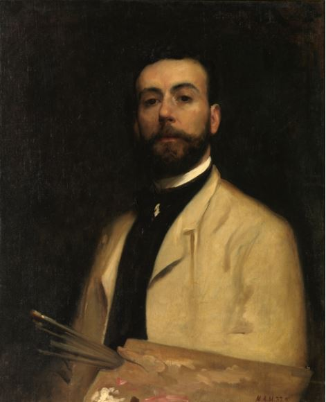 Self-portrait